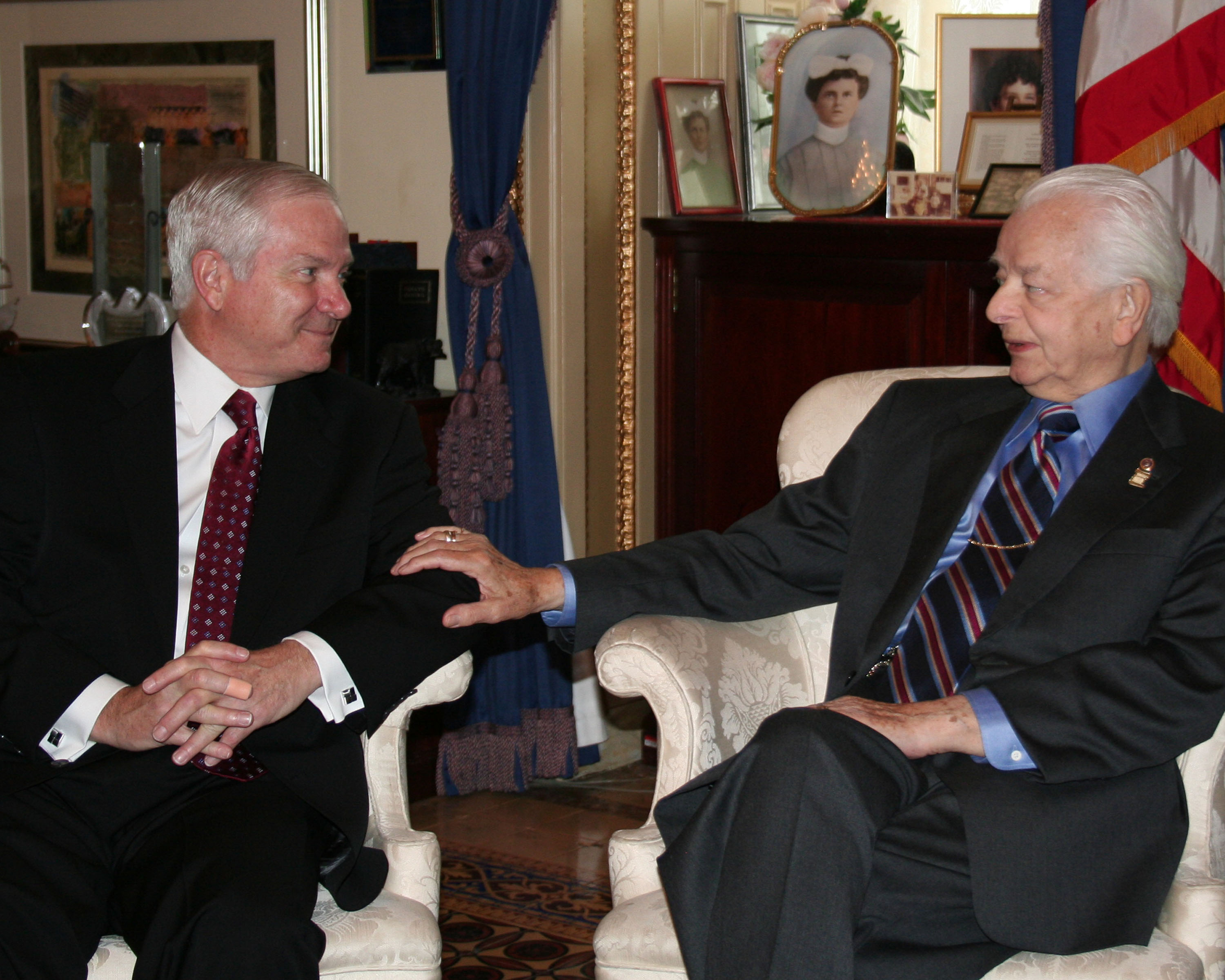 U.S. Senator Robert Byrd (D-WV) with Secretary of Defence-designate Robert Gates in Senator office